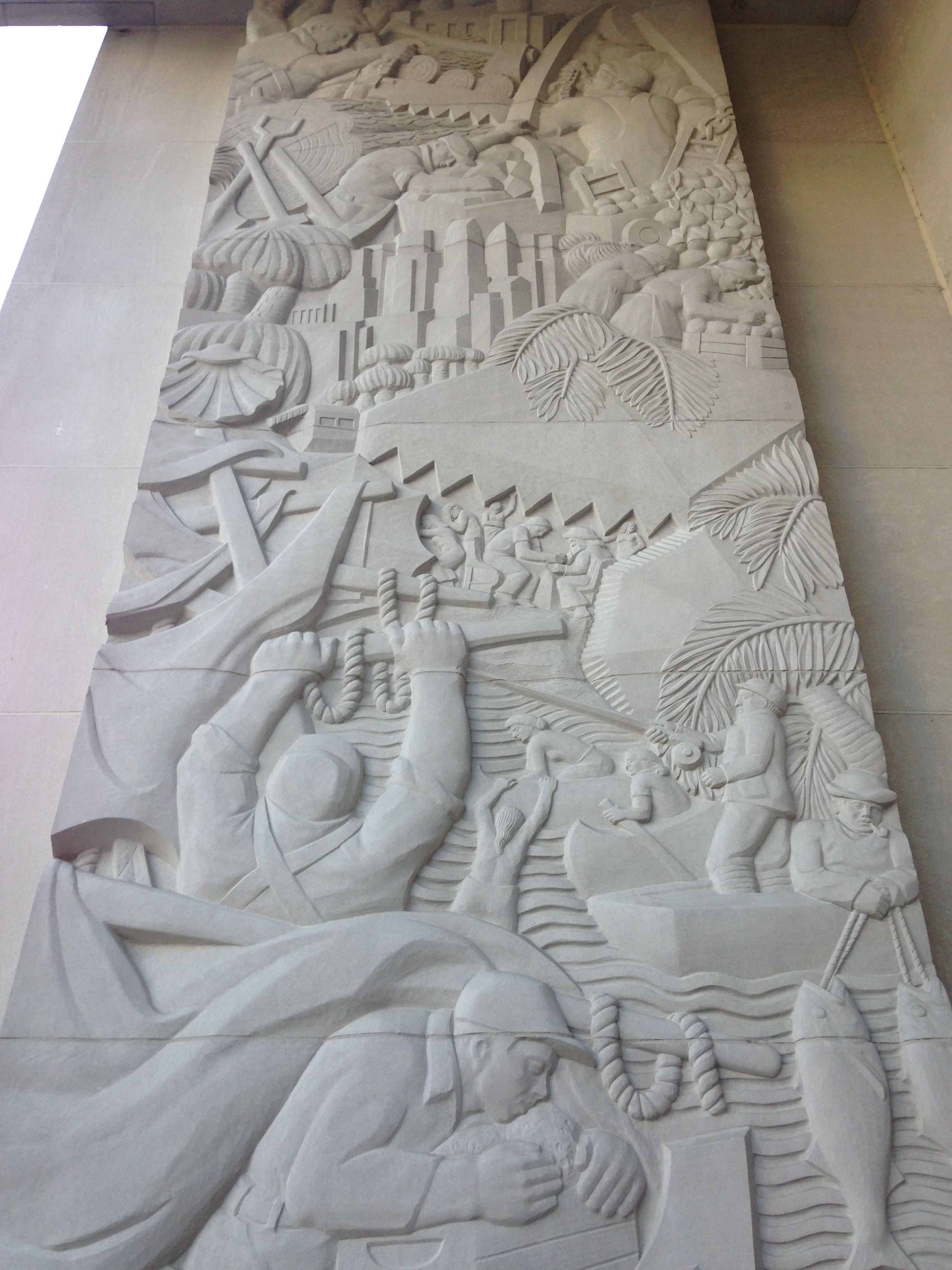 Commerce and Industry Relief Location: Fire and Rescue Building; Title: Doorway Entry Relief Agriculture in Florida (South); Commerce and Industry (North) (1932); Artist(s): Gaetano Cecere; Materials: Indiana limestone (sculpture: 24' x 6') (relief panels: 33.25" x 72.5" x 6.5") 515 N Julia St, Jacksonville, FL 32202